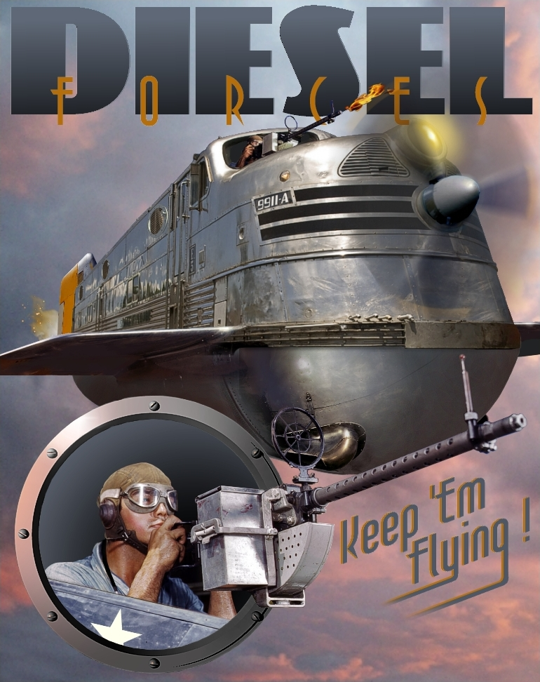 This work was dedicated by the artist Stefan Prohaczka for Wikipedia in the development of an article.The artist also posted this at